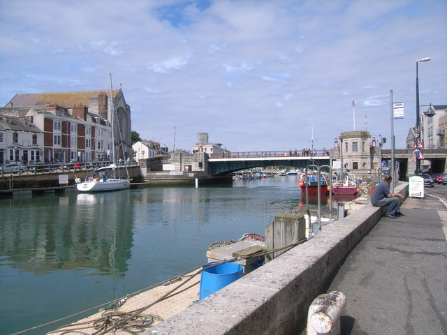 A quiet Weymouth Harbour & town bridge